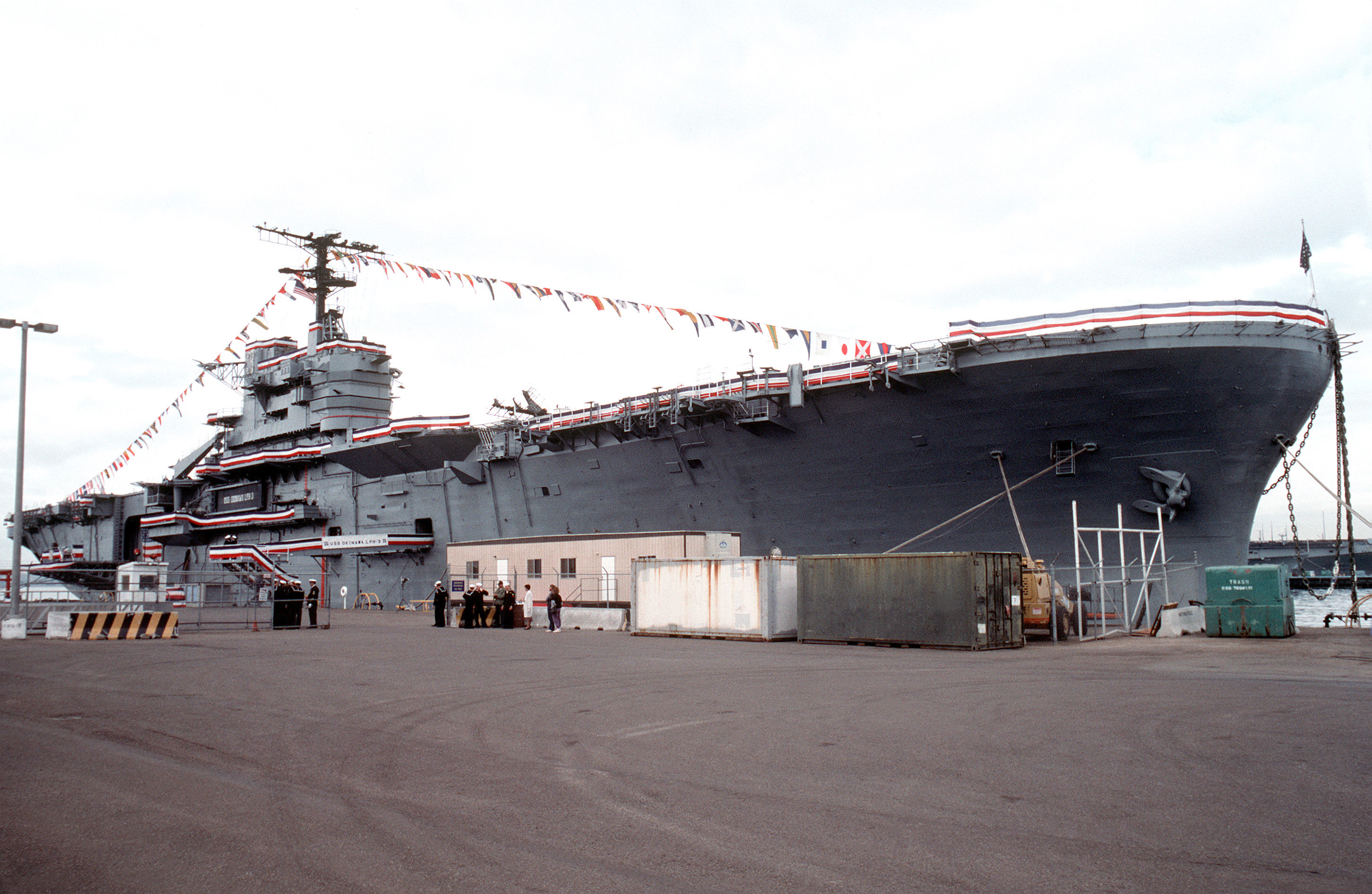 Pennants and bunting decorate the U.S. Navy amphibious assault ship USS Okinawa (LPH-3) as the ship stands moored to a pier prior to its decommissioning ceremony.